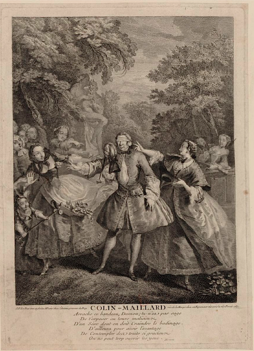 Colin-Maillard, sketch & etching by Le Bas, printed in Paris rue de la Harpe chez un Fayencier, 1737.